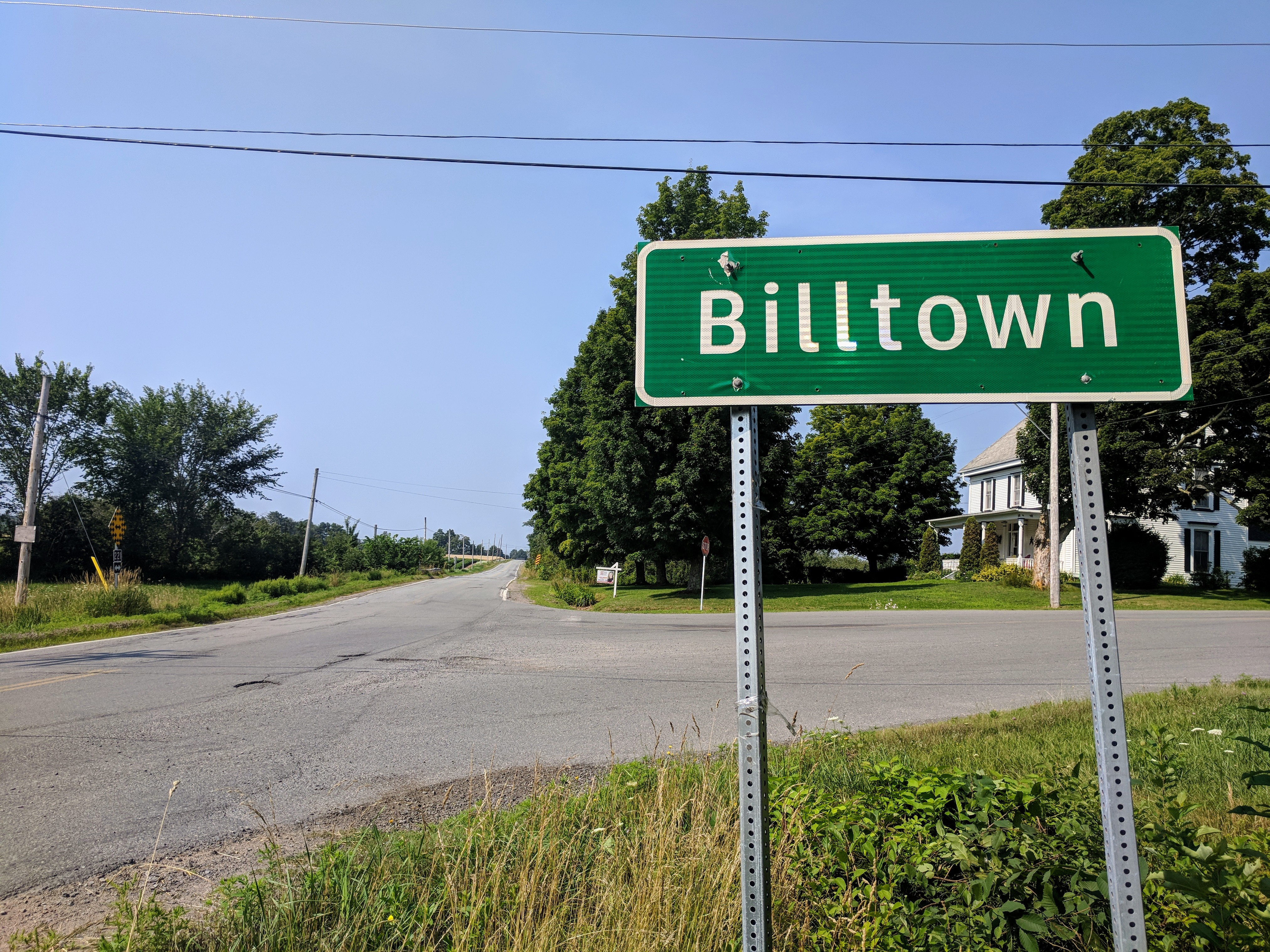 Green Sign with text "Billtown", overlooking T-Intersection of Highway 221, formerly known as Gibson Road, and Rockwell Mountain Road. Parts of the Bill Homestead are visible to the right. Fields are visible to the left.